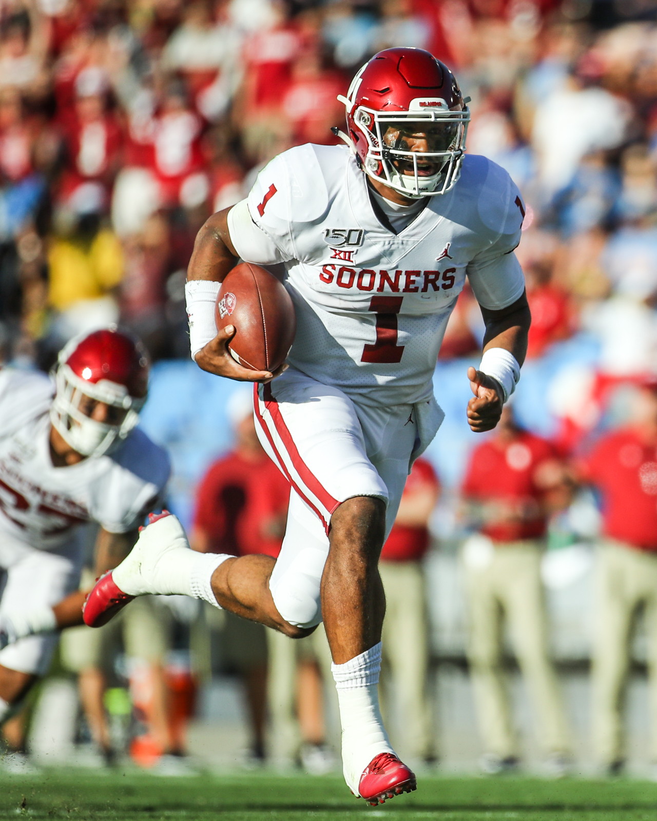 Oklahoma Sooners quarterback Jalen Hurts (1) runs for a 30-yard touchdown on 4th down and 3 to give Oklahoma a 7-0 lead in the first quarter; Oklahoma defeated UCLA 48-14, Sept 14, 2019, Pasadena, CA.